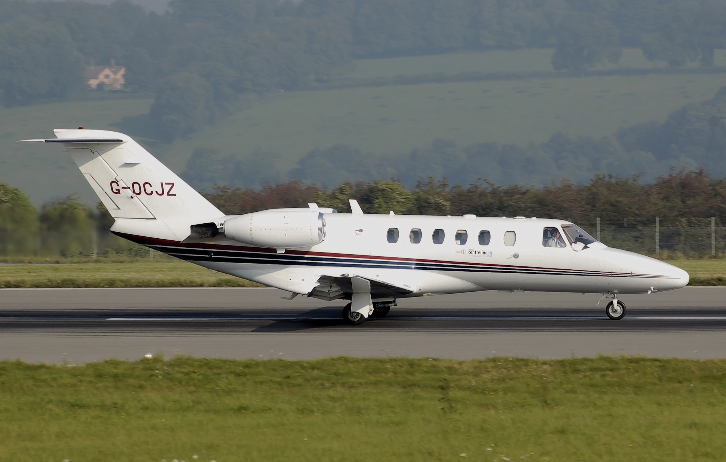 Centreline Air Charter Cessna 525A CitationJet CJ2 (G-OCJZ) on the takeoff run at Bristol International Airport, England.